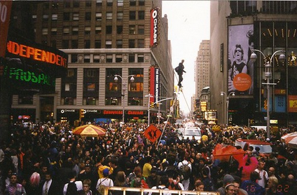 Reclaim the Street, Time's Square, this action in addition to the monthly critical mass rides, which ended in Time's Square with thousands of people holding their bikes over their head in demand for an auto-free Time's Square and a more sustainably designed city, lead towards Time's Square's eventually denial of cars.